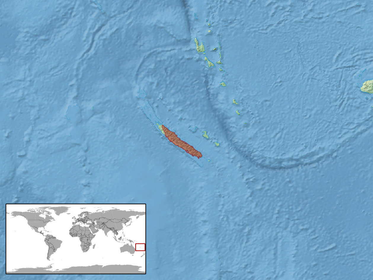 geographic distribution of Marmorosphax tricolor